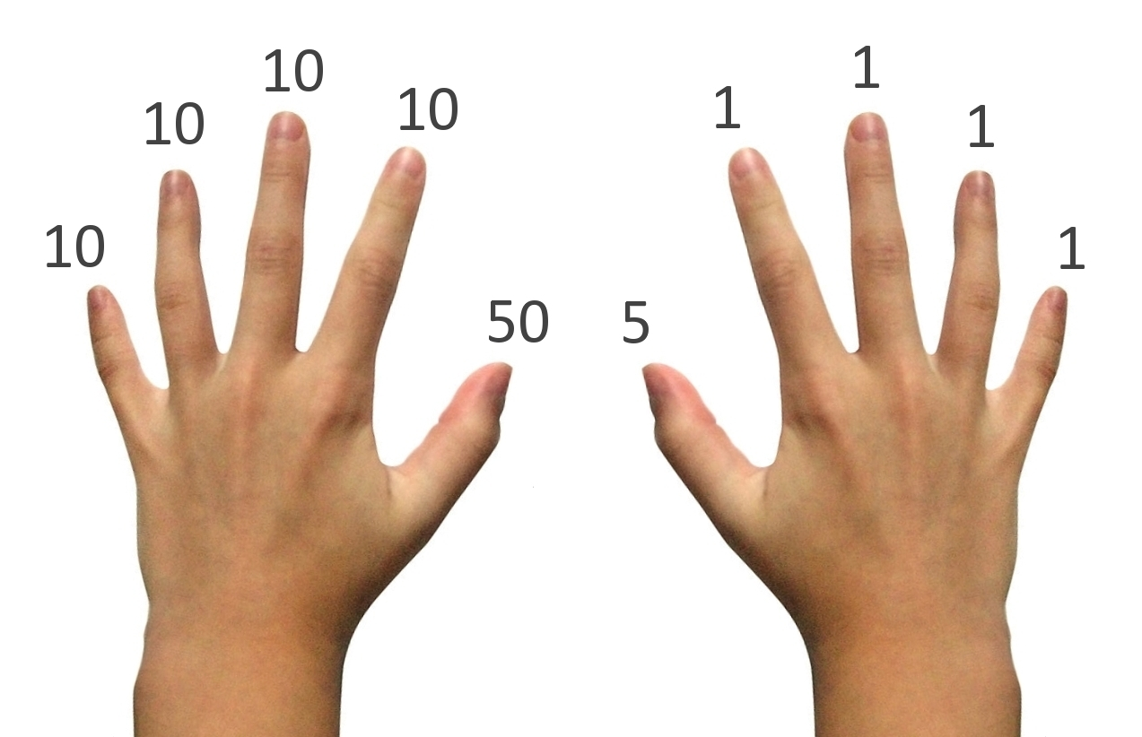 Values of fingers for Chisanbop